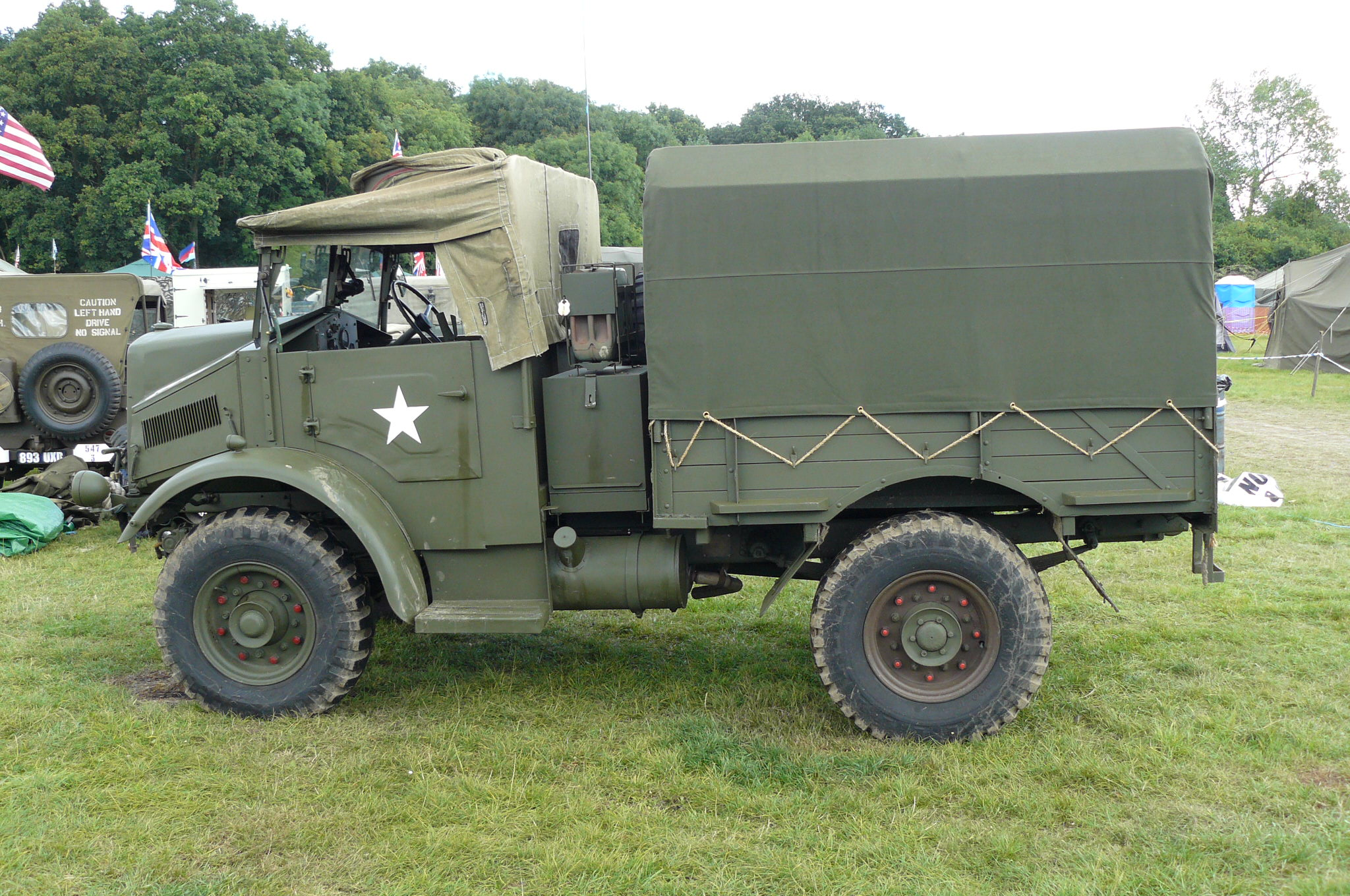 Morris-Commercial C8 GS, light military truck, used by British forces in Germany just after WW2. Seen at War & Peace show 2011, England